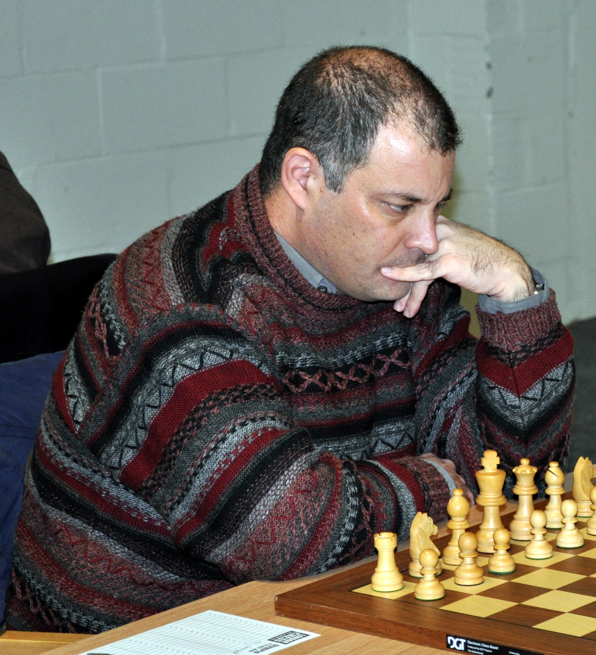 Alon Greenfeld - London Chess Classic 2010